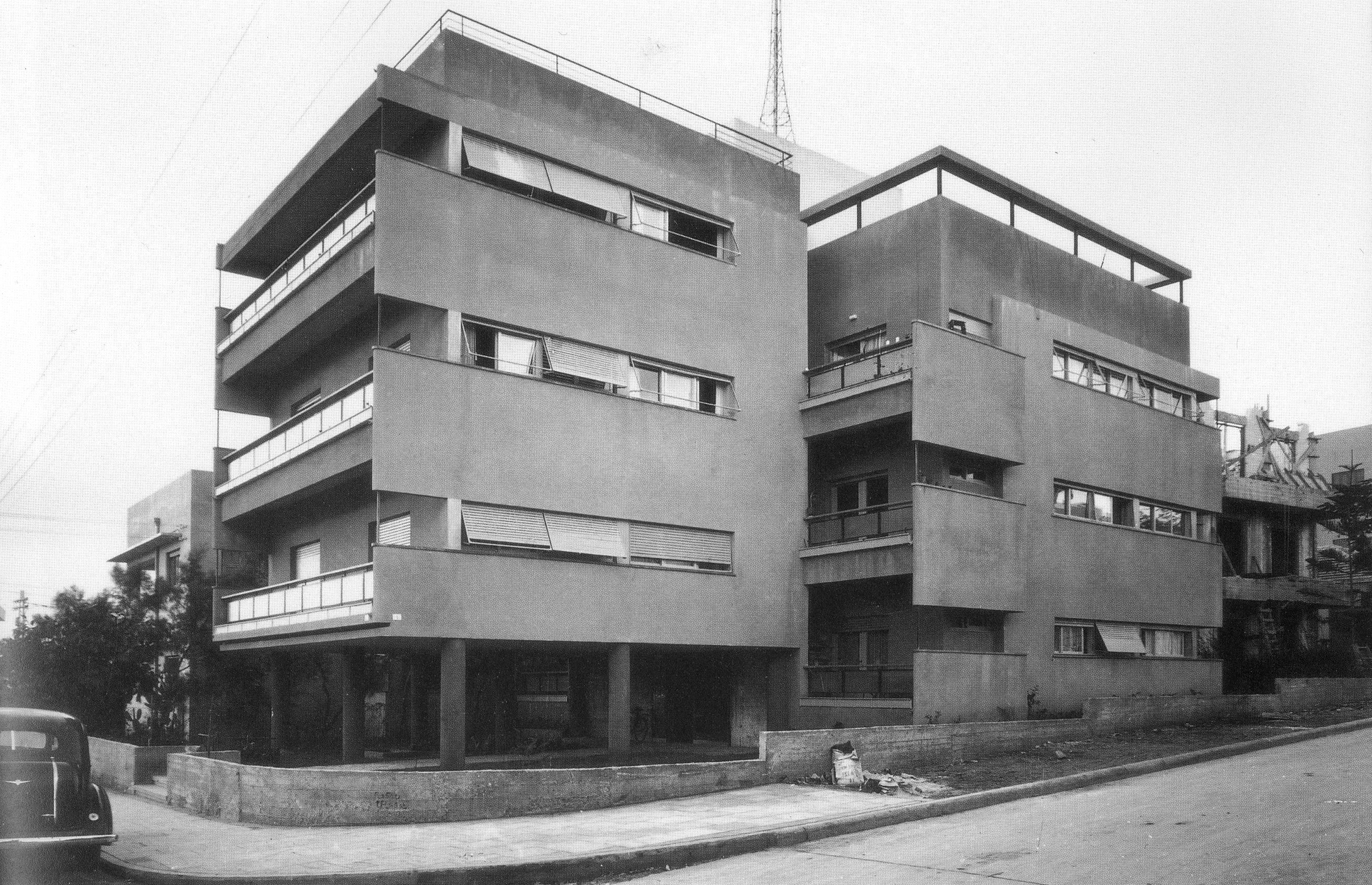 Architect: Ben-Ami Shulman (1907–1986) Alternative names Ben Ami ShulmanDescription architectDate of birth/death 7 July 1907 1986Location of birth/death Jaffa Los AngelesAuthority control : Q21664943 VIAF: 173291315 ULAN: 500242570 creator QS:P170,Q21664943